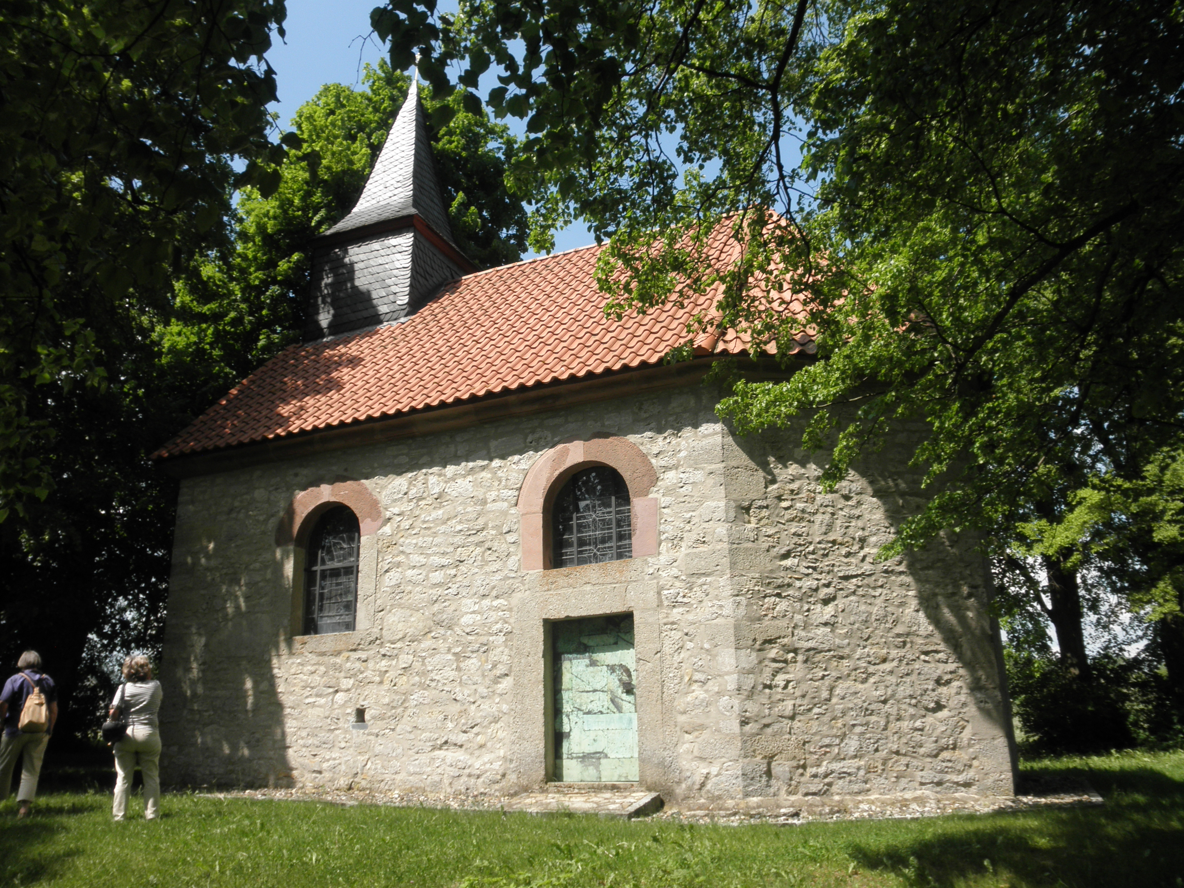 Werdigeshäuser Kirche (Church) near Kefferhausen (Eichsfeld) in Thuringia